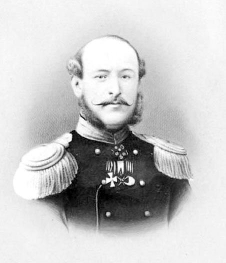 Dmitri Petrovich Maksutov, Russian admiral, the last Governor of Russian America